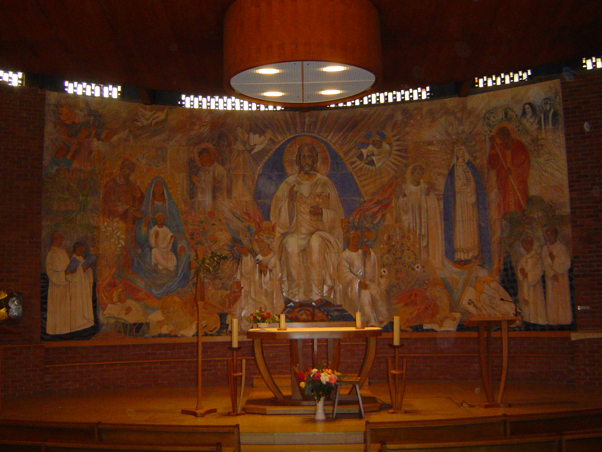 Antony- Chapelle Ste Marie